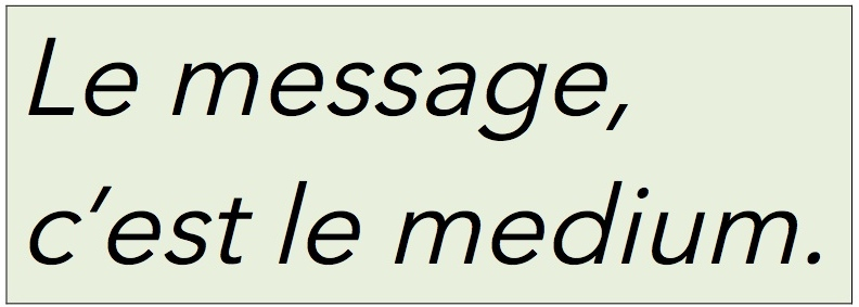 Formule de Marshall McLuhan